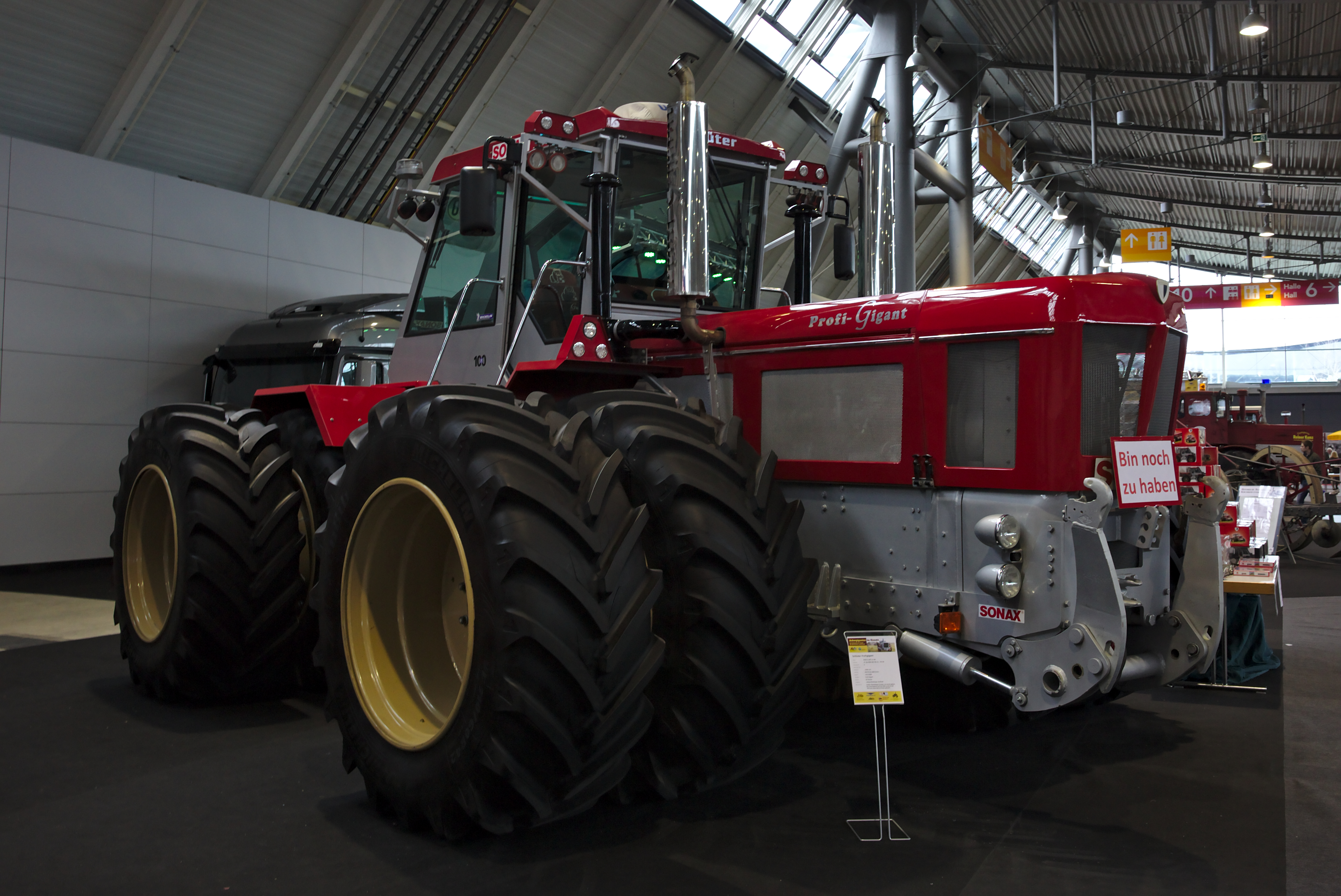 Schlüter Profigigant at Retro Classics 2018